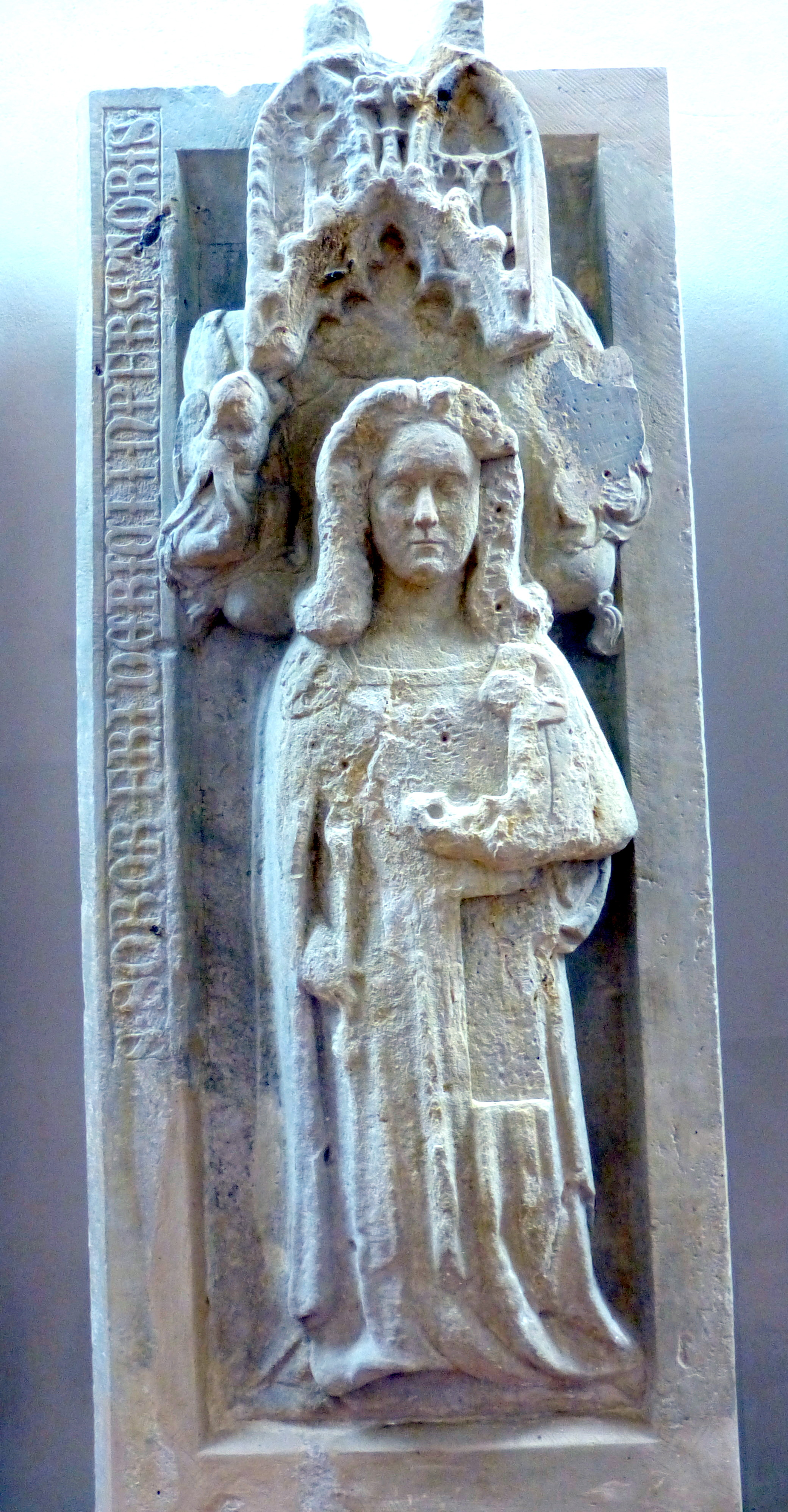 Eisenach ( Thuringia ). Saint George parish church - Grave monument ( 14th century ) for Jutta ( + 1190 ), wife of count Louis II of Thuringia.